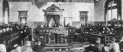 Old Jury court at the Tokyo District Court